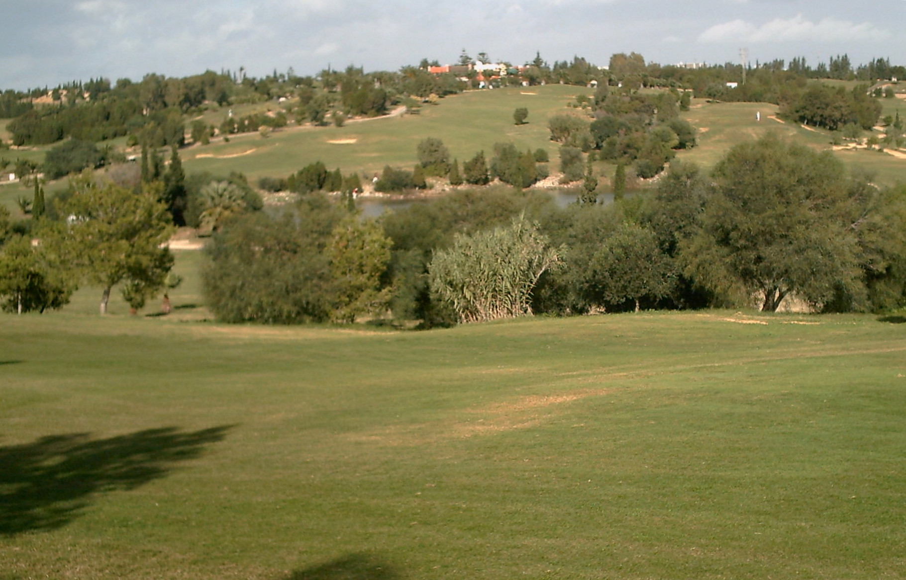 Golf course Yasmin in Hammamet, Tunisia